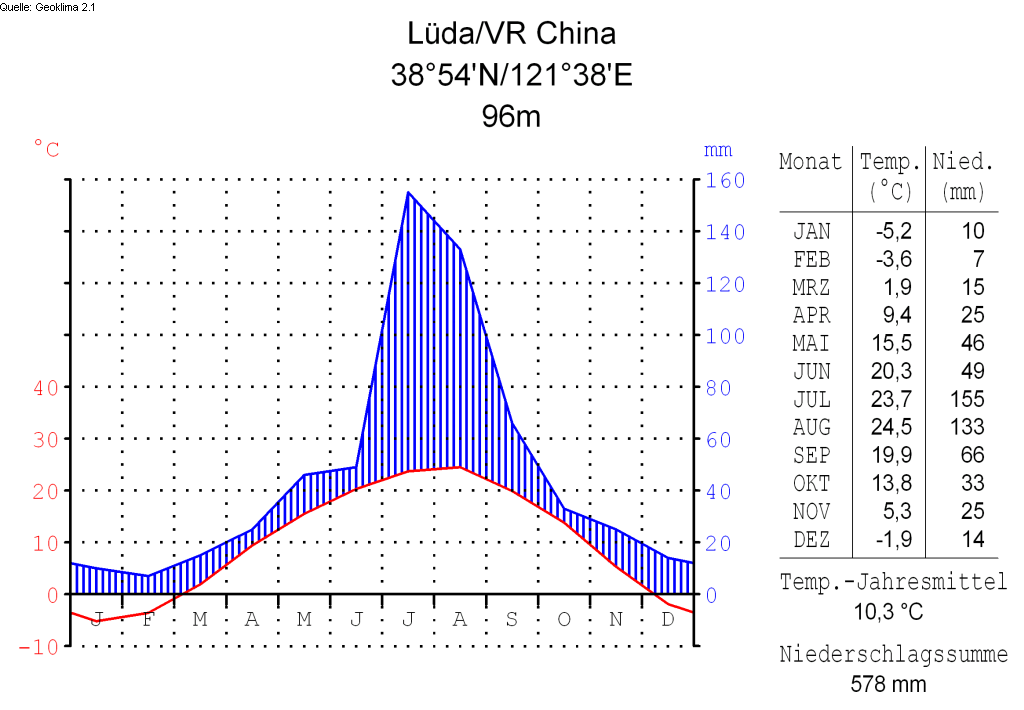 climate chart in the format by Walter and Lieth, metric, °Celsisus and millimeters, made with Geoklima 2.1